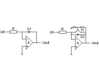 Limiter